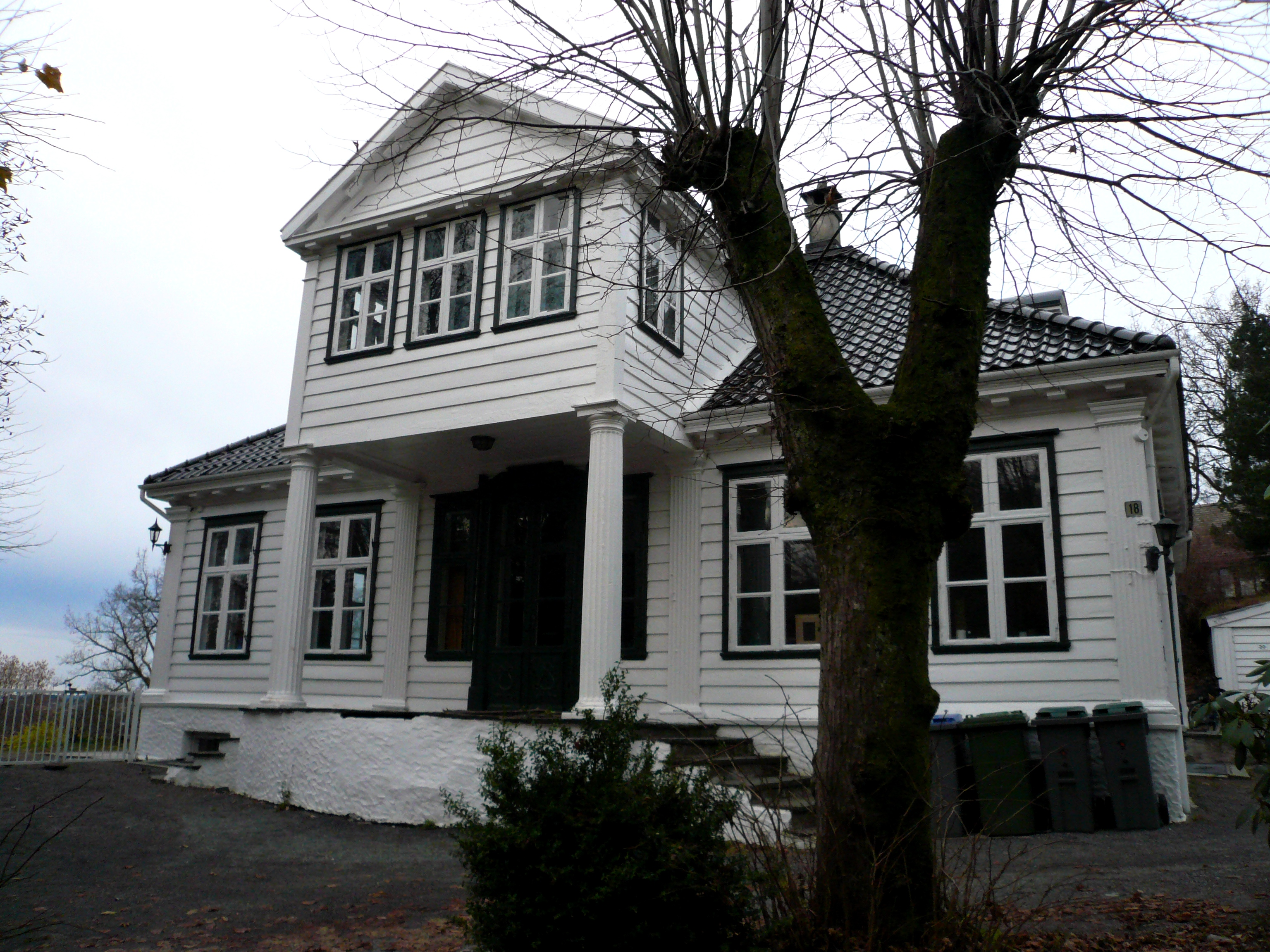 Stamerhuset, Rieber-Mohns veg 18, Bergen, Norway.